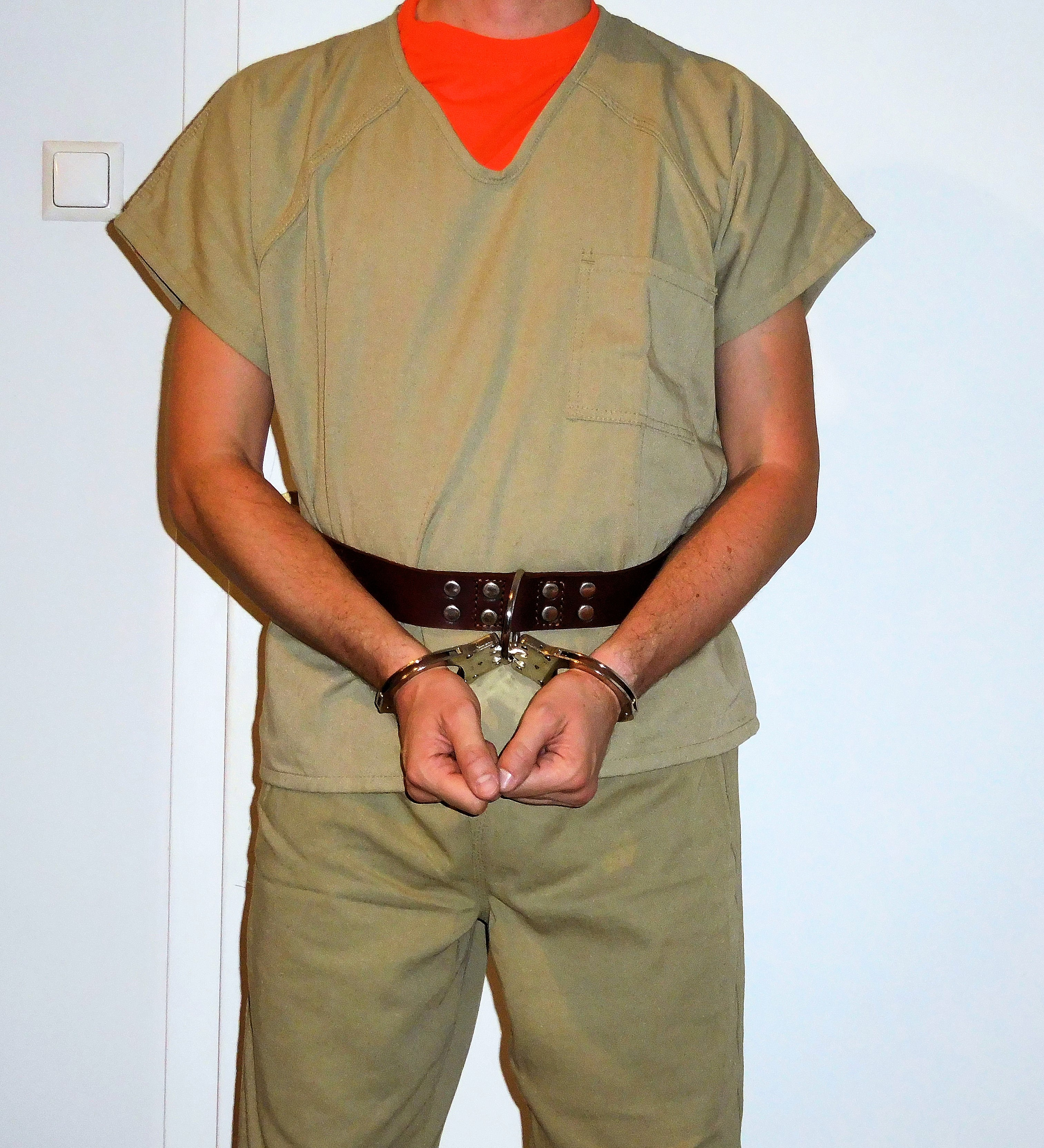 Inmate in khaki uniform and hinged handcuffs secured with a leather transport restraint belt